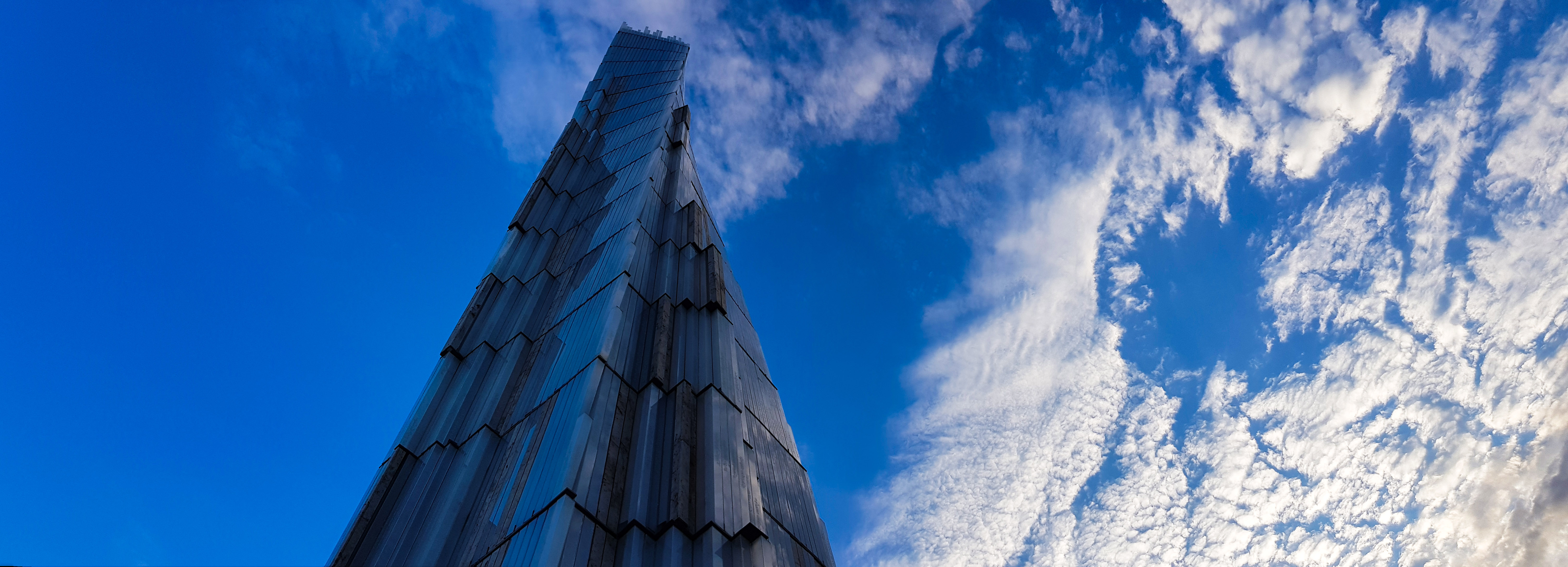 Heroes' Square - Tbilisi